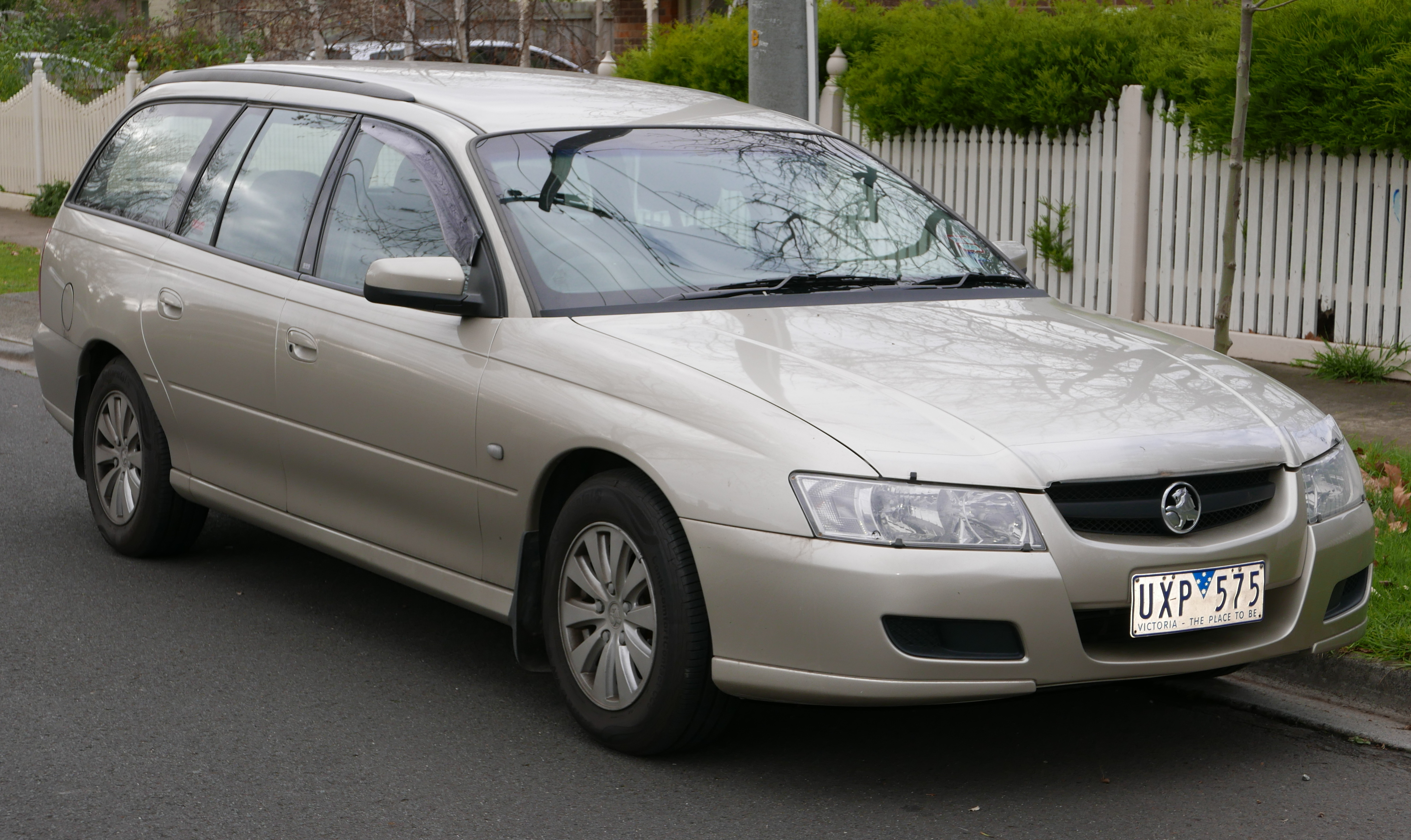 2006 Holden Commodore (VZ MY07) Acclaim station wagon. Photographed in Alphington, Victoria, Australia. Vehicle registration enquiry resultsJurisdictionVictoriaRegistrationUXP575Chassis code6G1ZK84B76L892665Engine codeLE0062930592Compliance date2006-11Year of manufacture2006